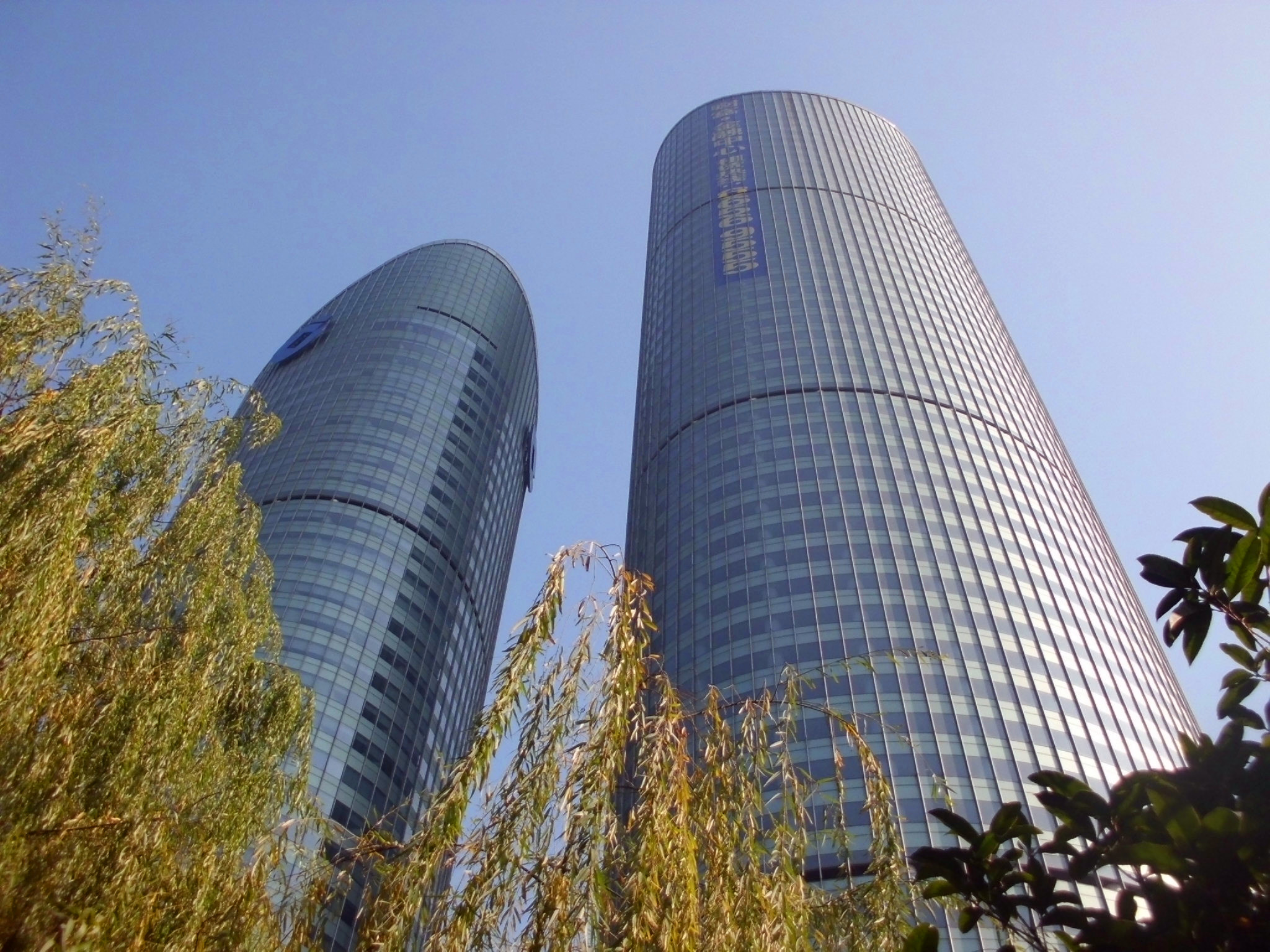 ZheJiang Fortune & Finance Center